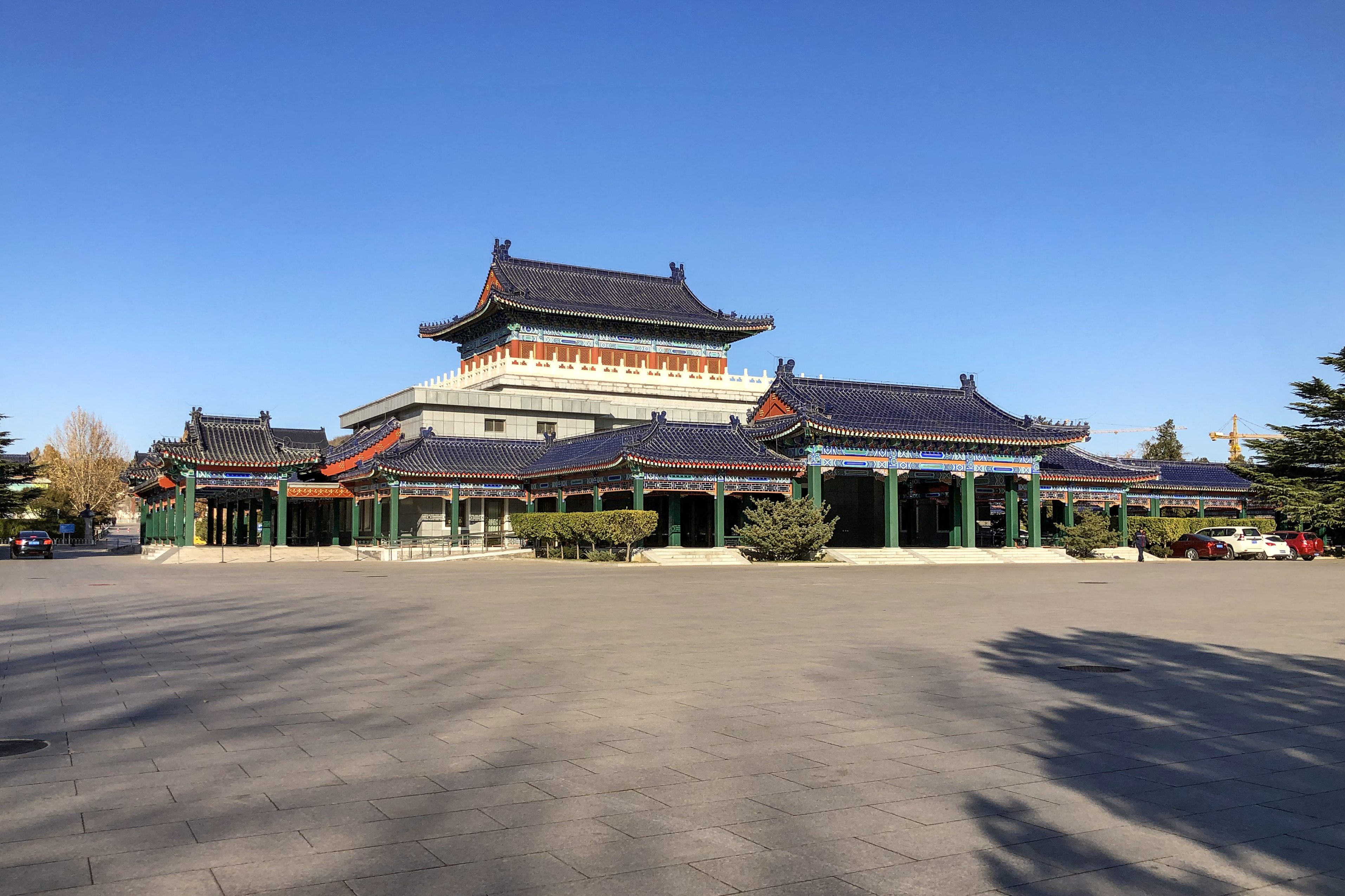 This is where state funerals are held.